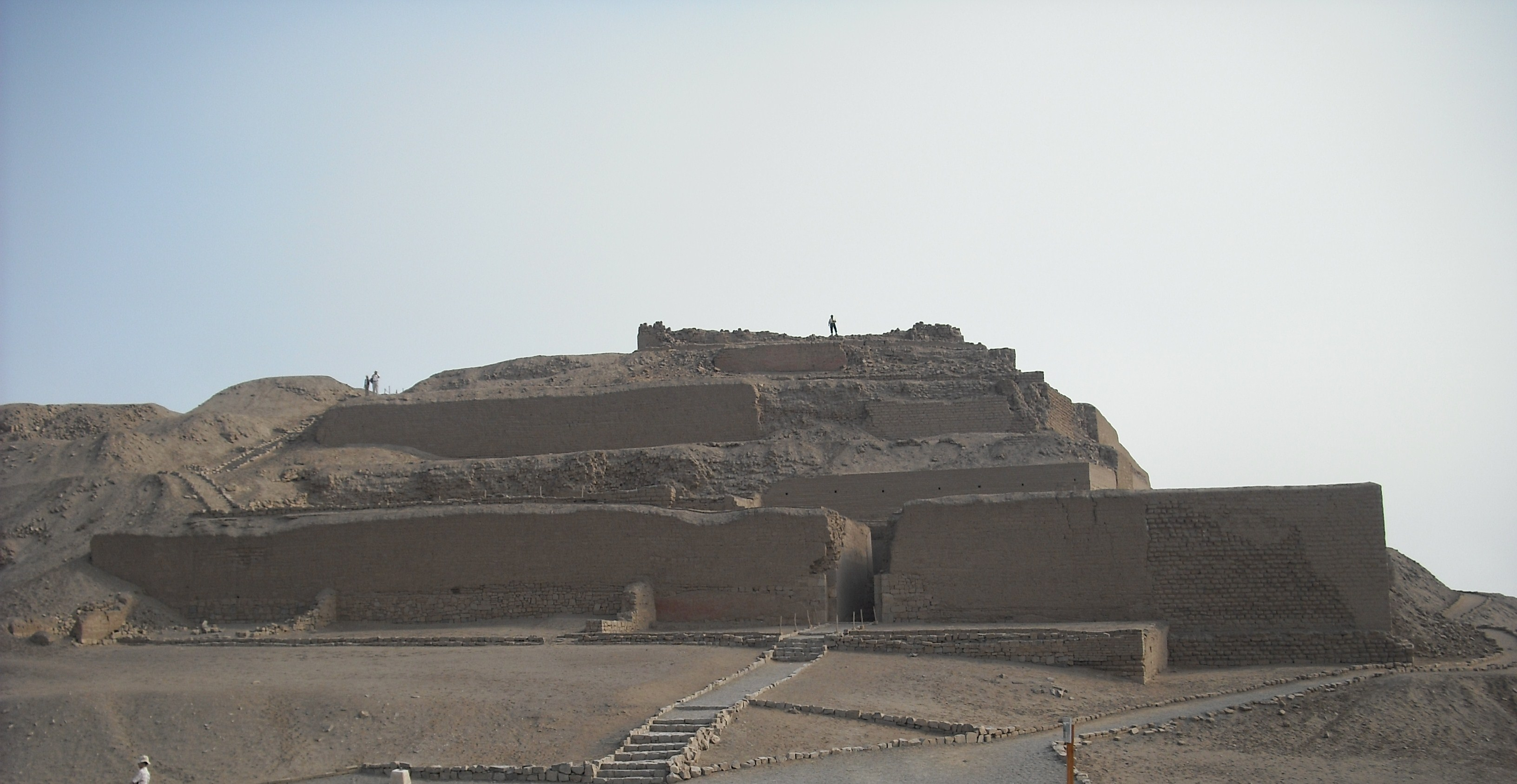 Pachacamac archeological site, Temple of the Sun